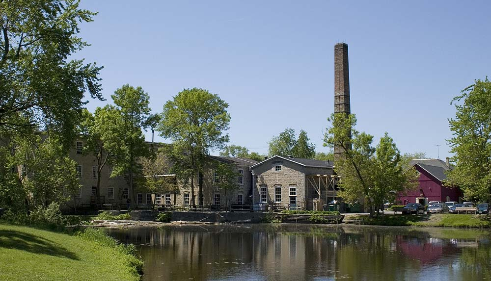 The Hilgen-Wittenberg Woolen Mill complex in Cedarburg, Wisconsin. National Registered Historic Place. View looking west across the mill pond.